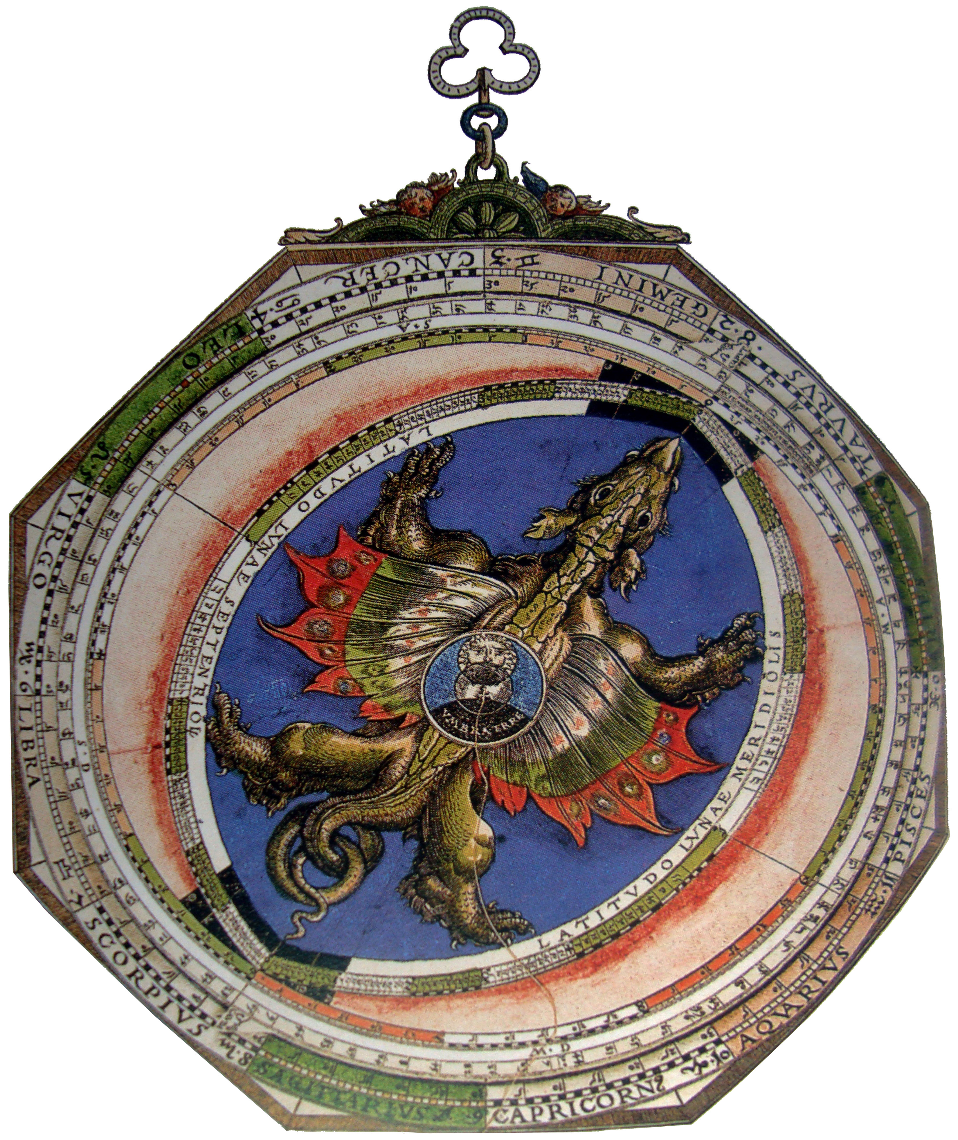 Macrocosme in Petrus Apianus, Astronomicum Caesareum, 1540, Ingolstadt.